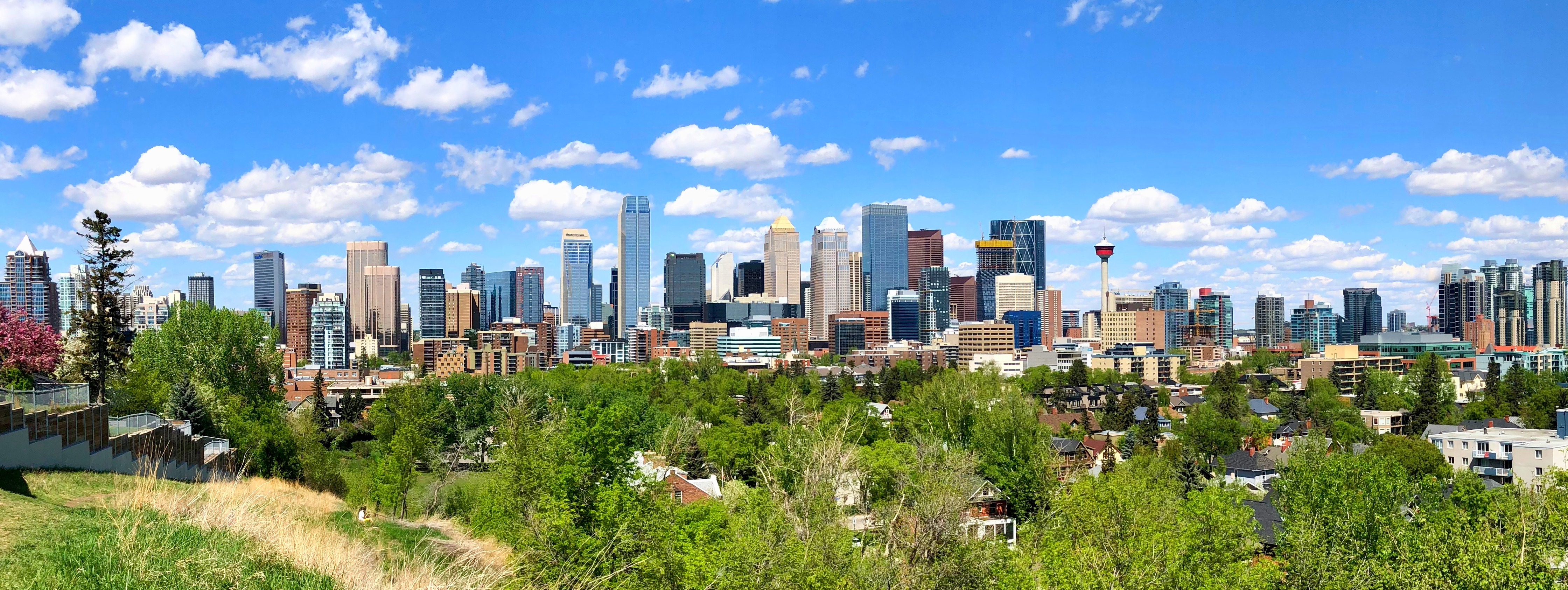 Downtown Calgary, Albert in May 2018